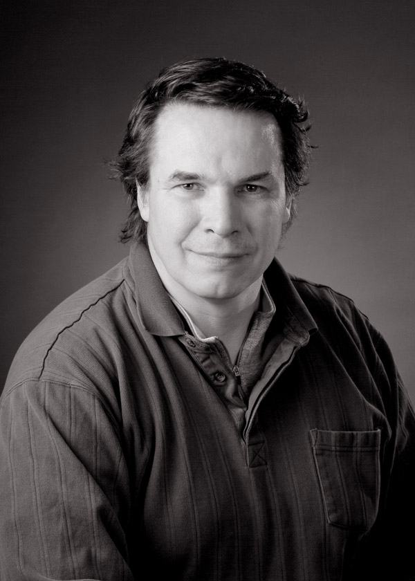 Greg Mortenson's Portrait